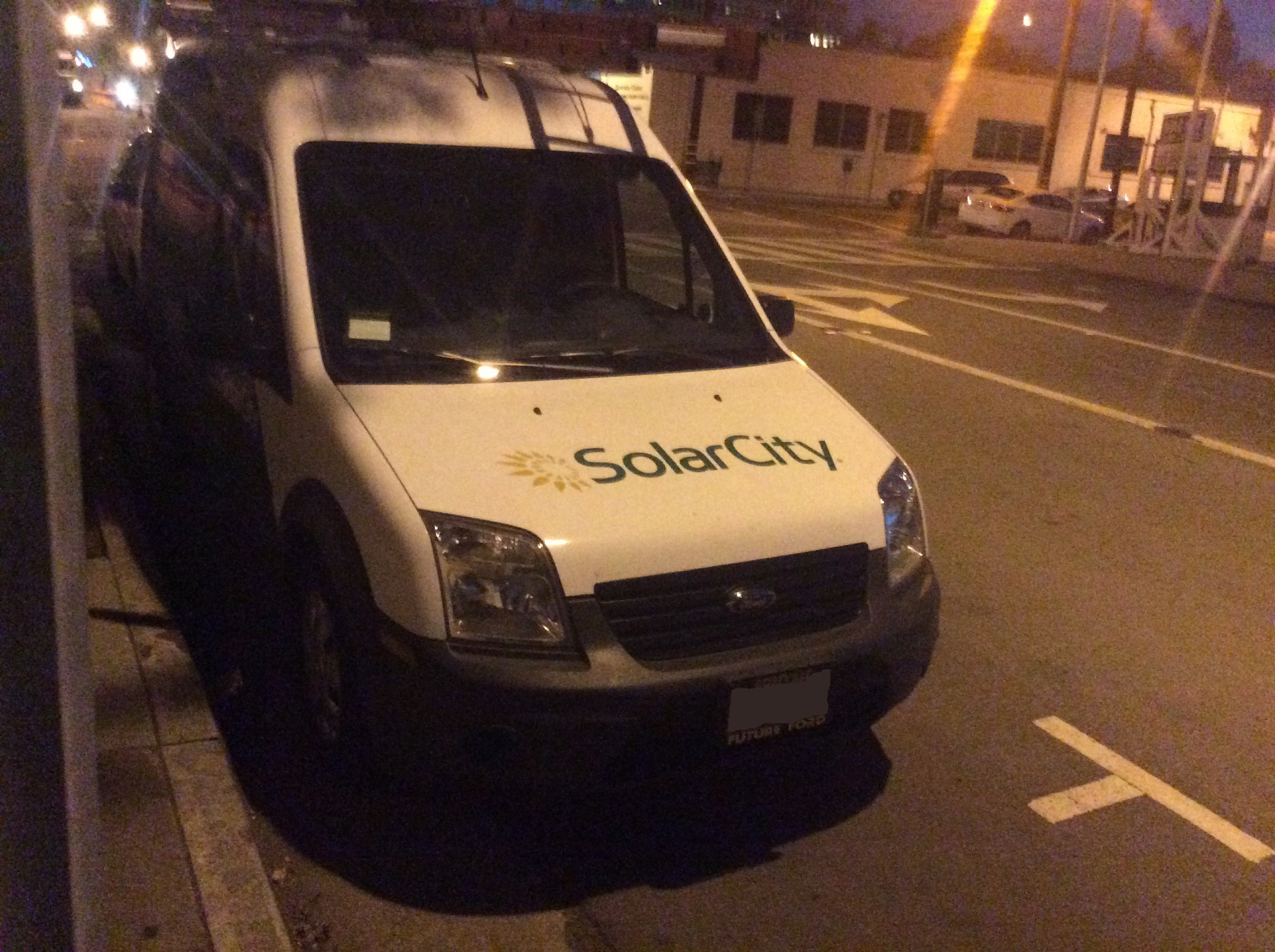 SolarCity vehicle with updated logo at night; original work. This work was edited before the picture was uploaded so that the license plate number is not shown for privacy.